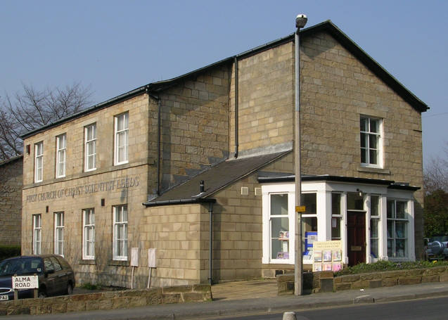 First Church of Christ Scientist Leeds - Alma Road, Headingley. It is proposed to demolish this former church, now used as offices to make way for the Leeds Trolleybus scheme.